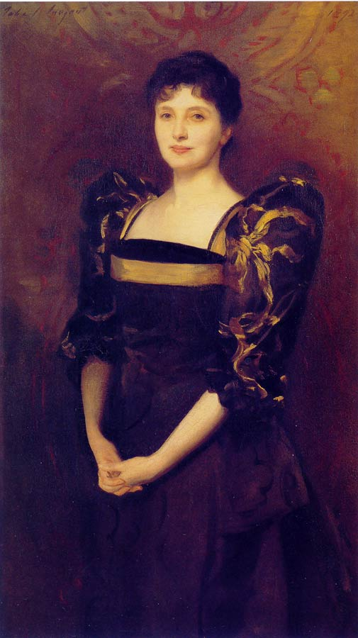 Mrs George Lewis (nee Elizabeth Eberstadt) John Singer Sargent -- American painter 1892 Private collection Oil on canvas 136 x 77.5 cm (53 1/2 x 30 1/2 in.) singed ul: John S. Sargent signed ur: 1892 Jpg: Local